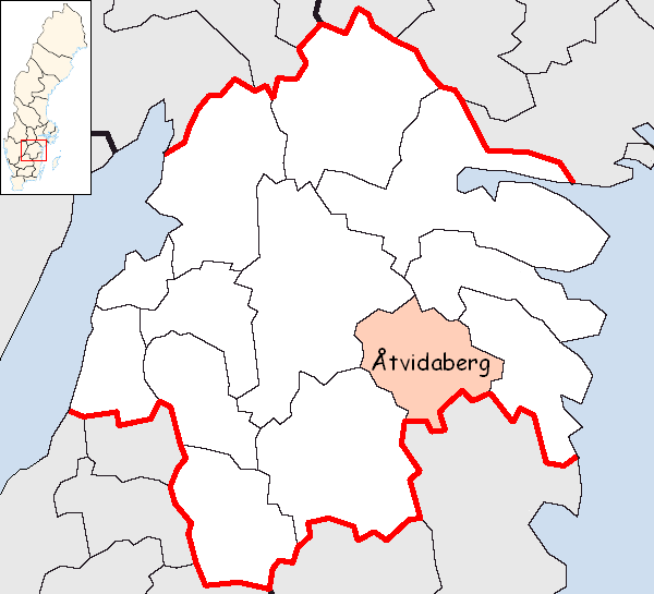 Åtvidaberg Municipality in Östergötland County Designed by me. Mere outlines are a PD source from